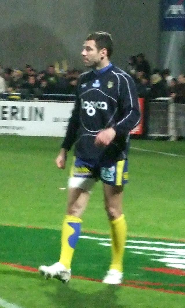 The french rugbyman Julien Malzieu with ASM Clermont Auvergne